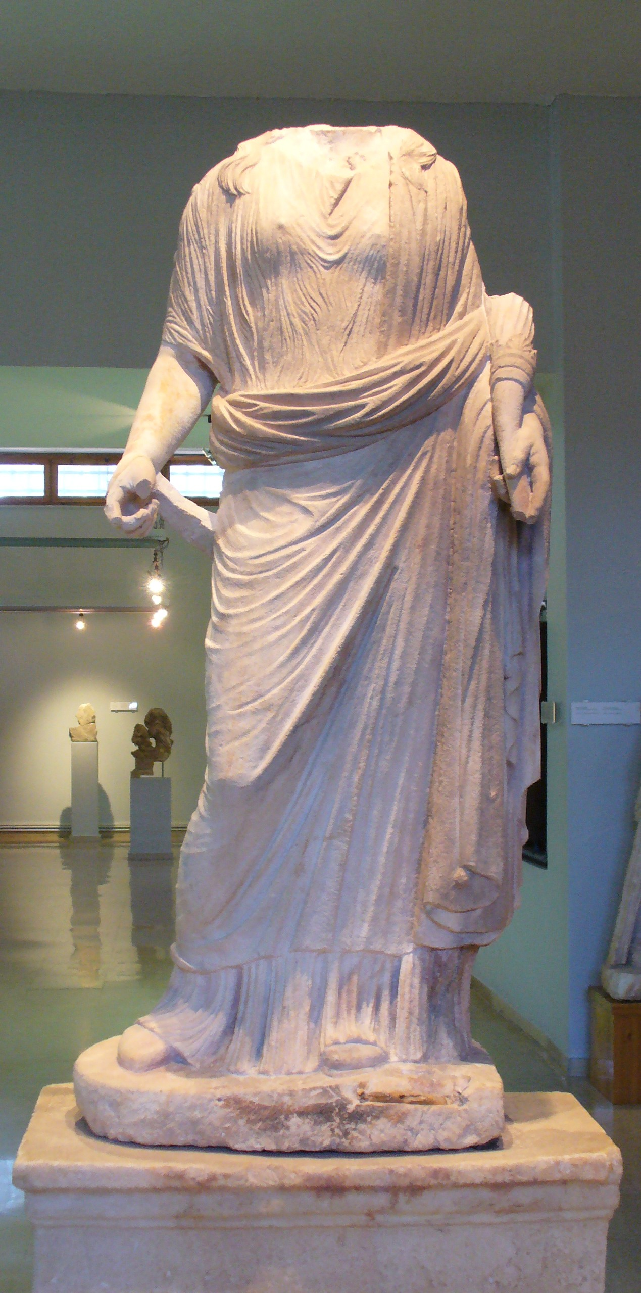 A cult statue of Isis–Tyche from the 2nd century CE, found at Dion. It's now at the site museum.